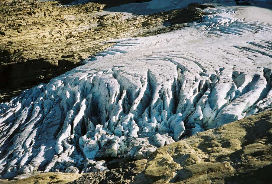 Image of the terminal end of Jackson Glacier in Glacier National Park (U.S.)